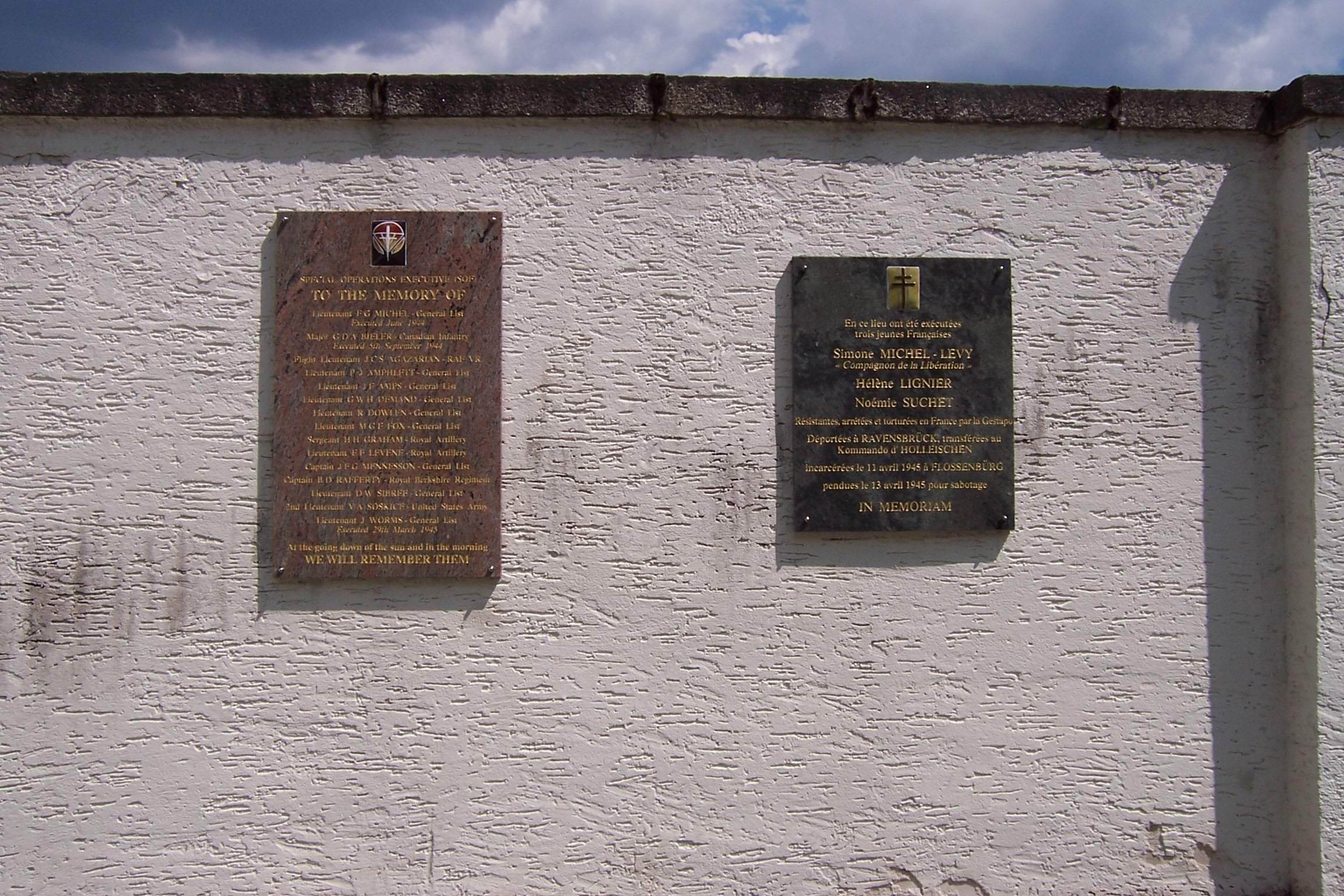 Flossenbürg concentration camp, Arrestblock-Hof: Memorials to British soldiers and French women of the Resistance executed here